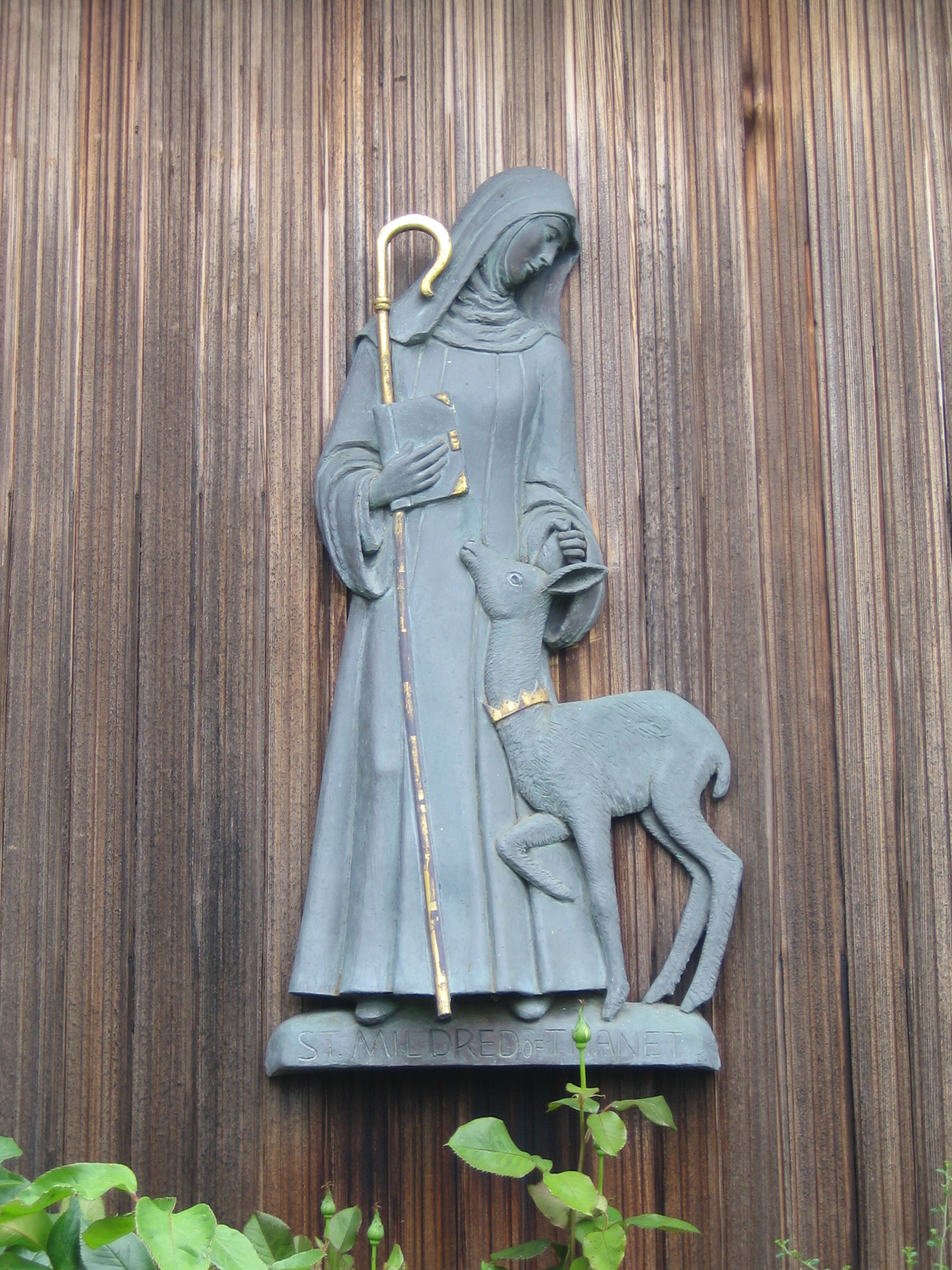 Bronzed plaque for Minster Abbey. Created by Concordia Scott OSB. 1963.